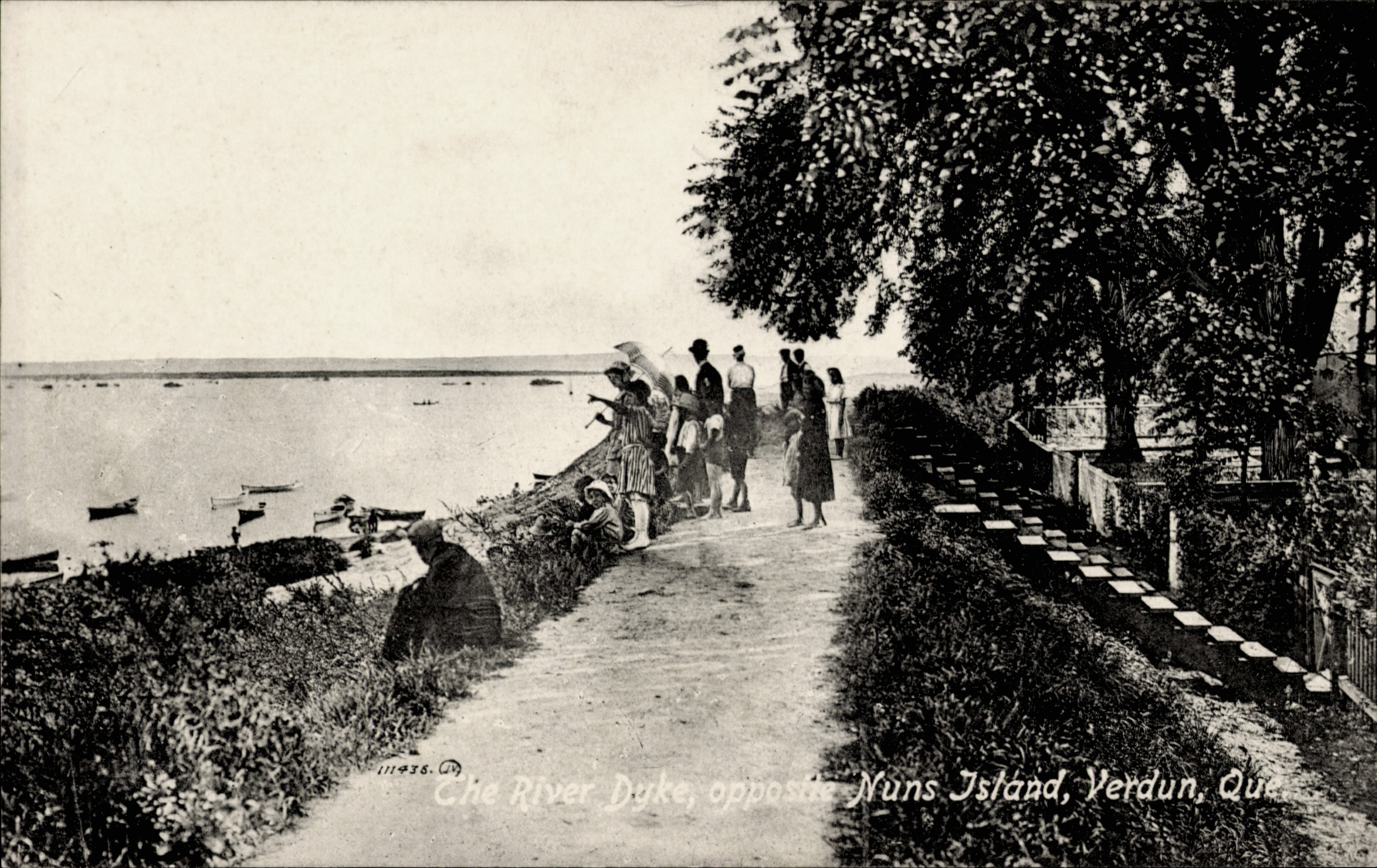 The River Dyke, opposite Nuns Island, Verdun, Que.